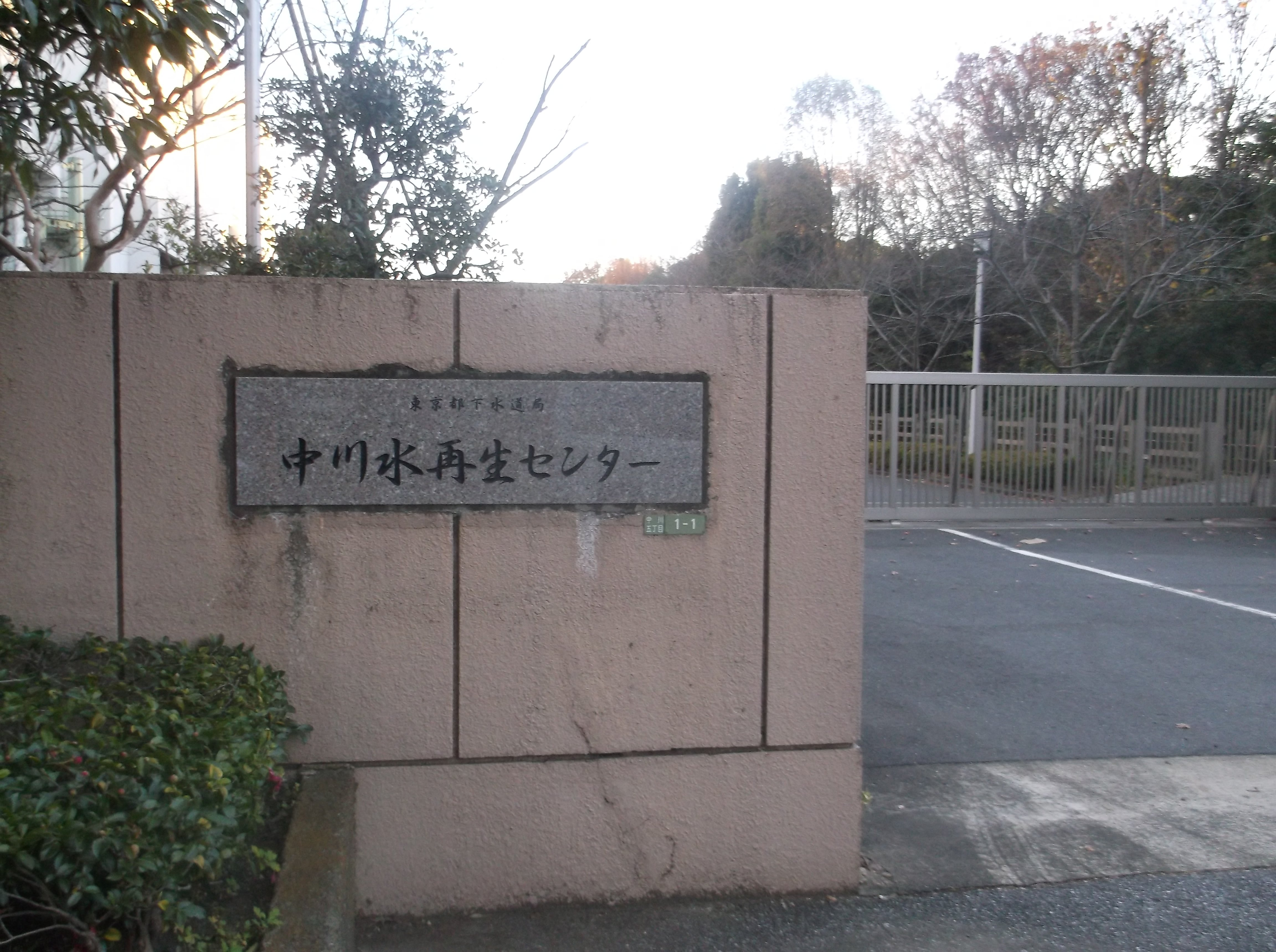 A photo of an entrance of Nakagawa Sewage Plant,Nakagawa,Adachi-ku,Tokyo,Japan.